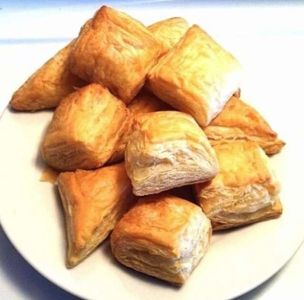 A plate of savory Haitian patties.